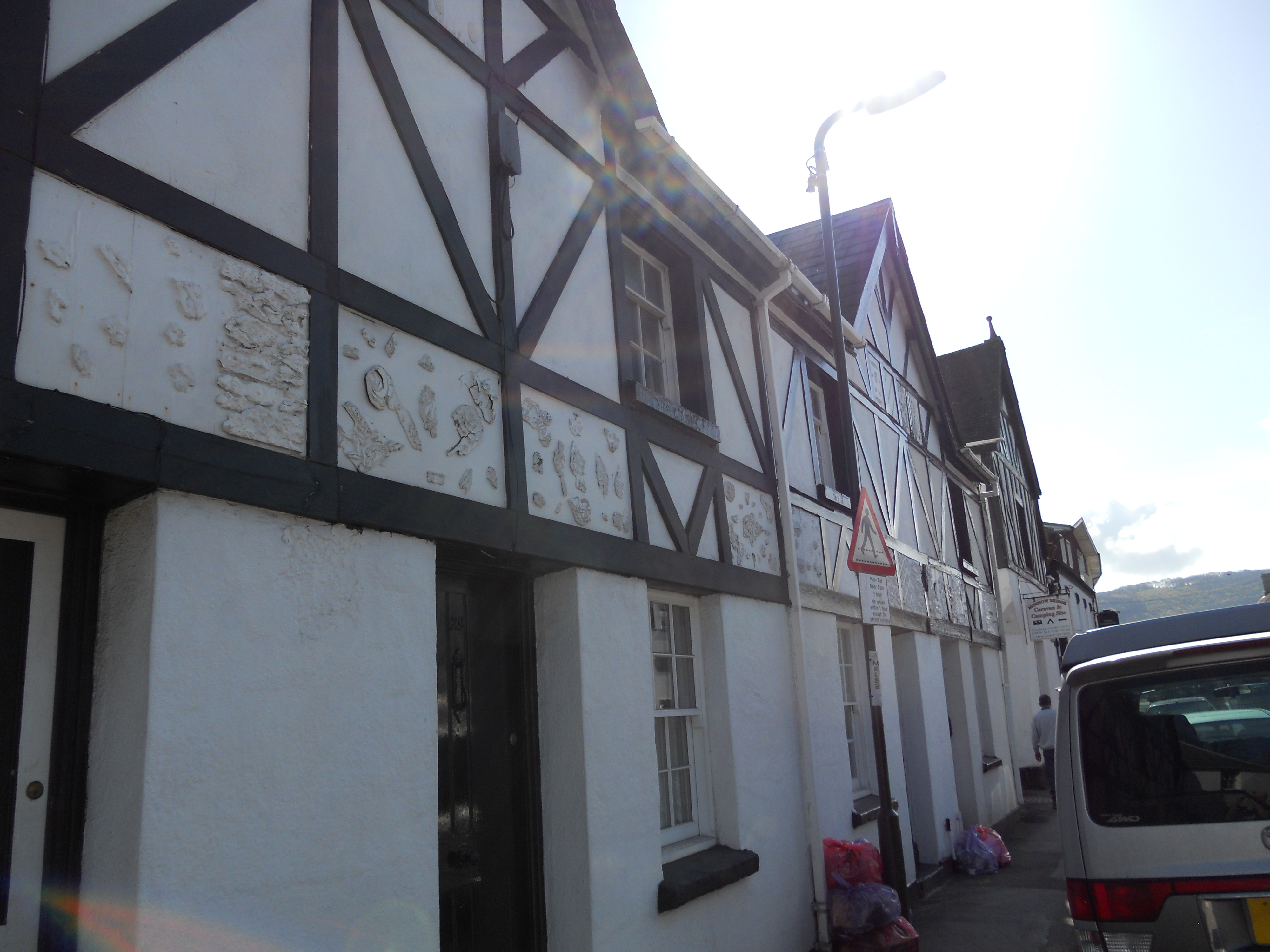 Monmouth Drybridge Street - Houses where Crompton decorated with wooden wall paper blocks